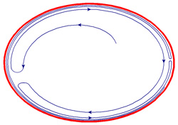 Illustration of Poincaré–Bendixson theorem (3)